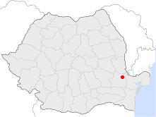 Location of Brăila in Romania.